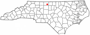 Category:North Carolina Dot Maps